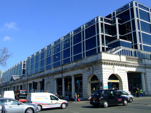 151 Buckingham Palace Road and Colonade Walk, viewed from outside Victoria Coach Station on Buckingham Palace Road.